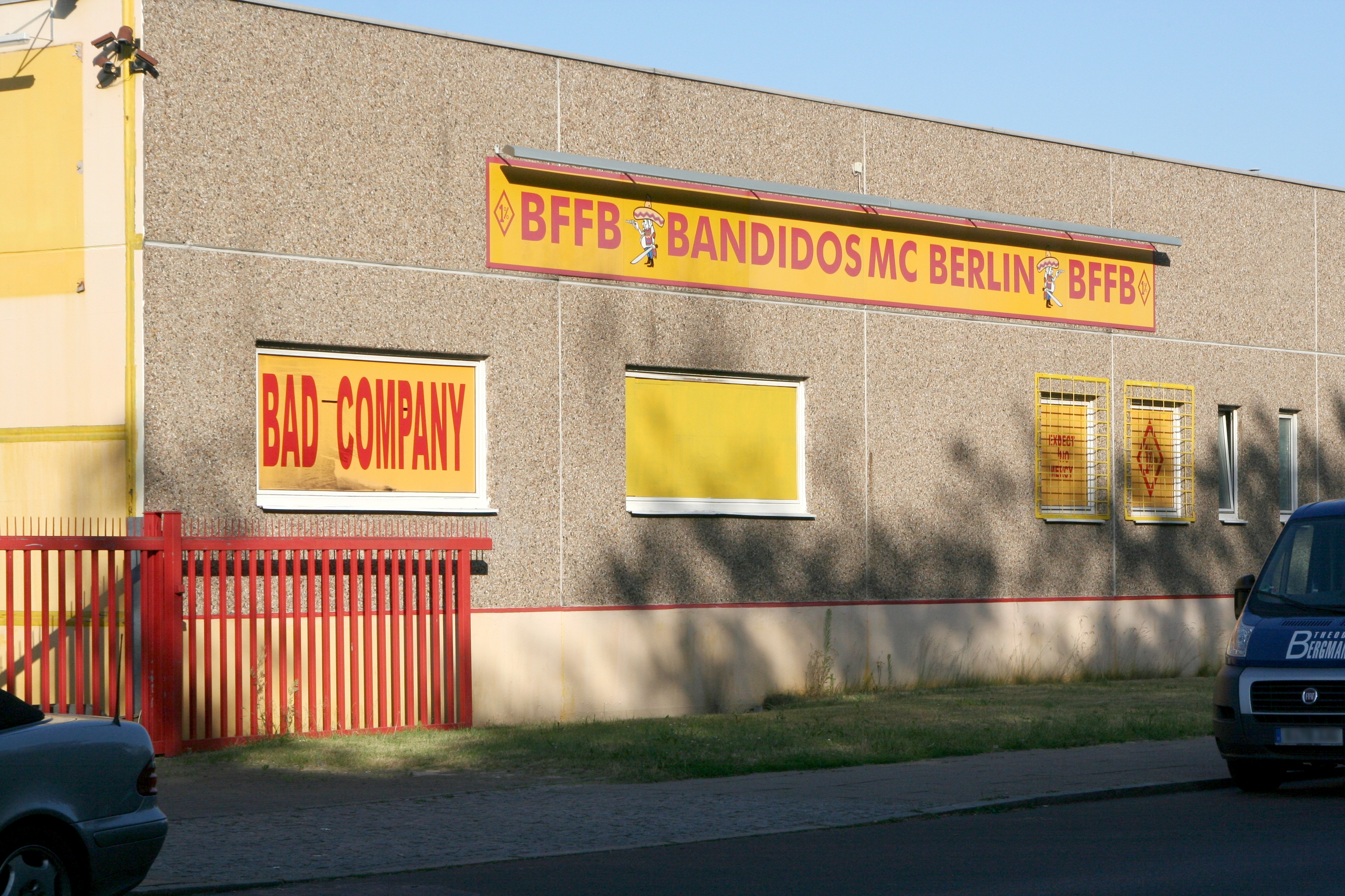 Clubhouse of the Bandidos MC, Chapter Berlin